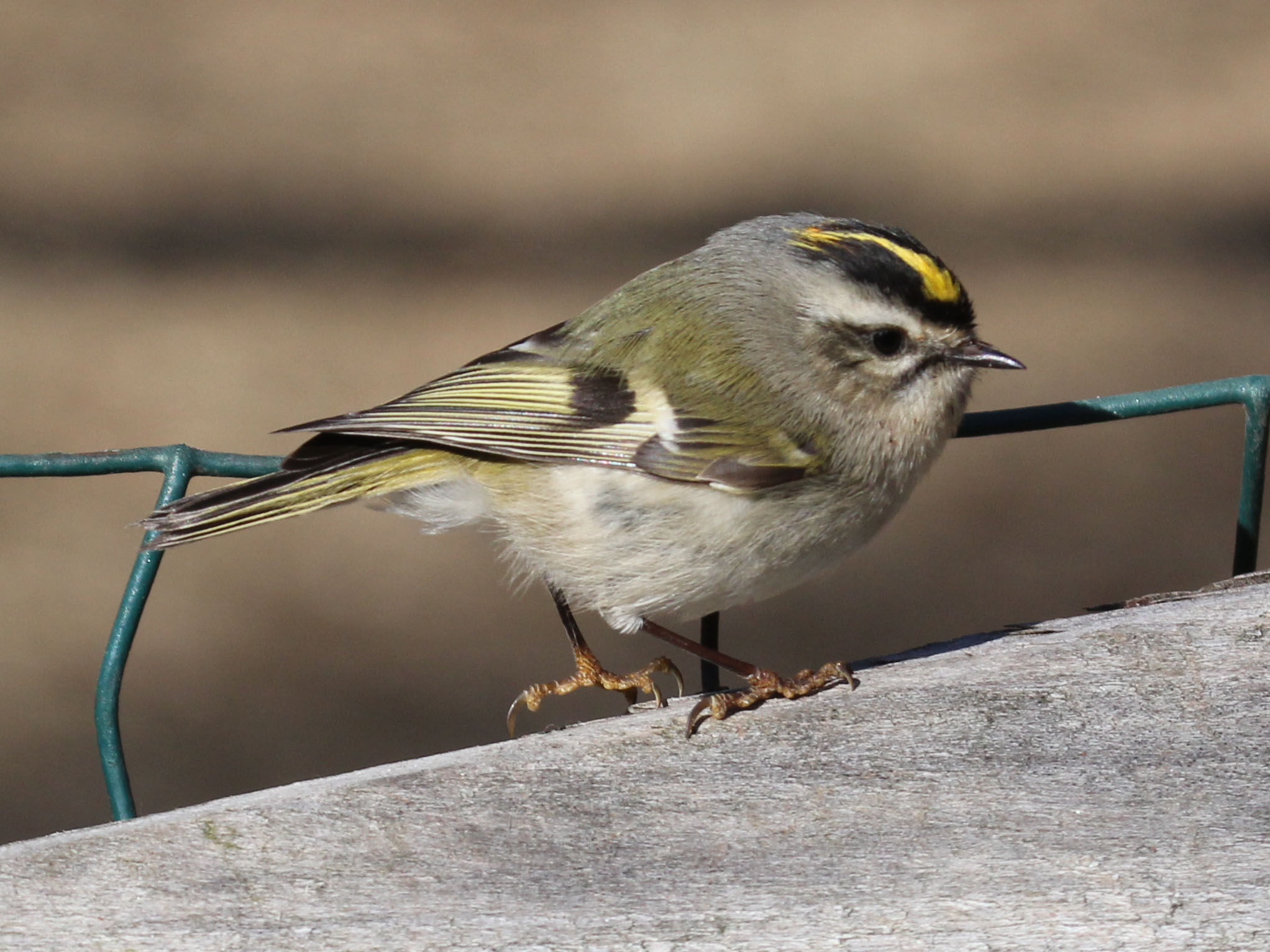 Golden-crowned Kinglet (Regulus satrapa) - Scotland Neck, North Carolina